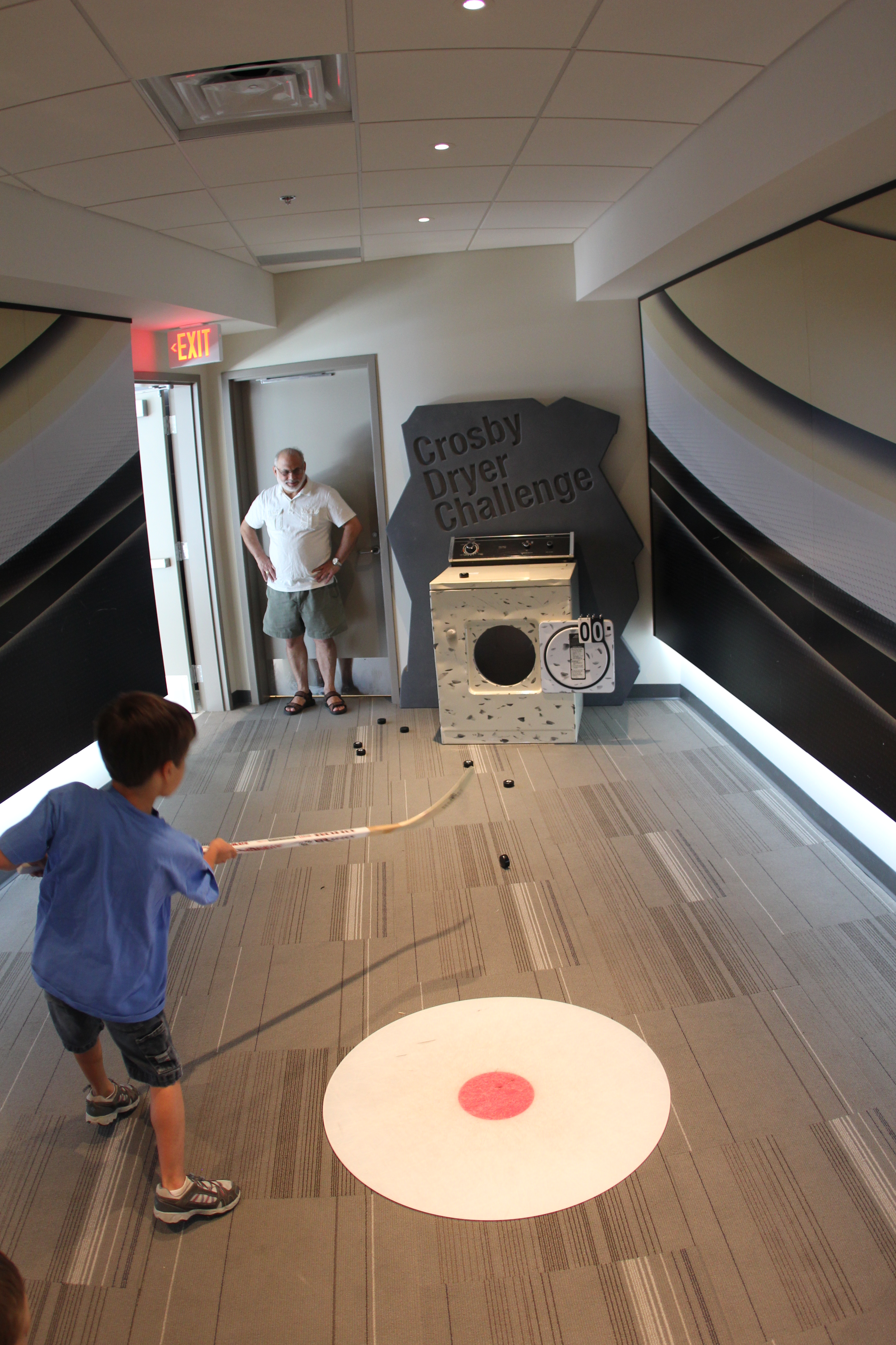 Shoot.. and score?